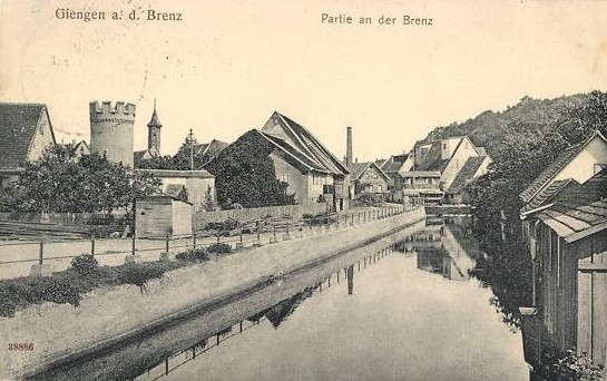 The Brenz River at Giengen, circa 1910. Postcard postally used in 1915.